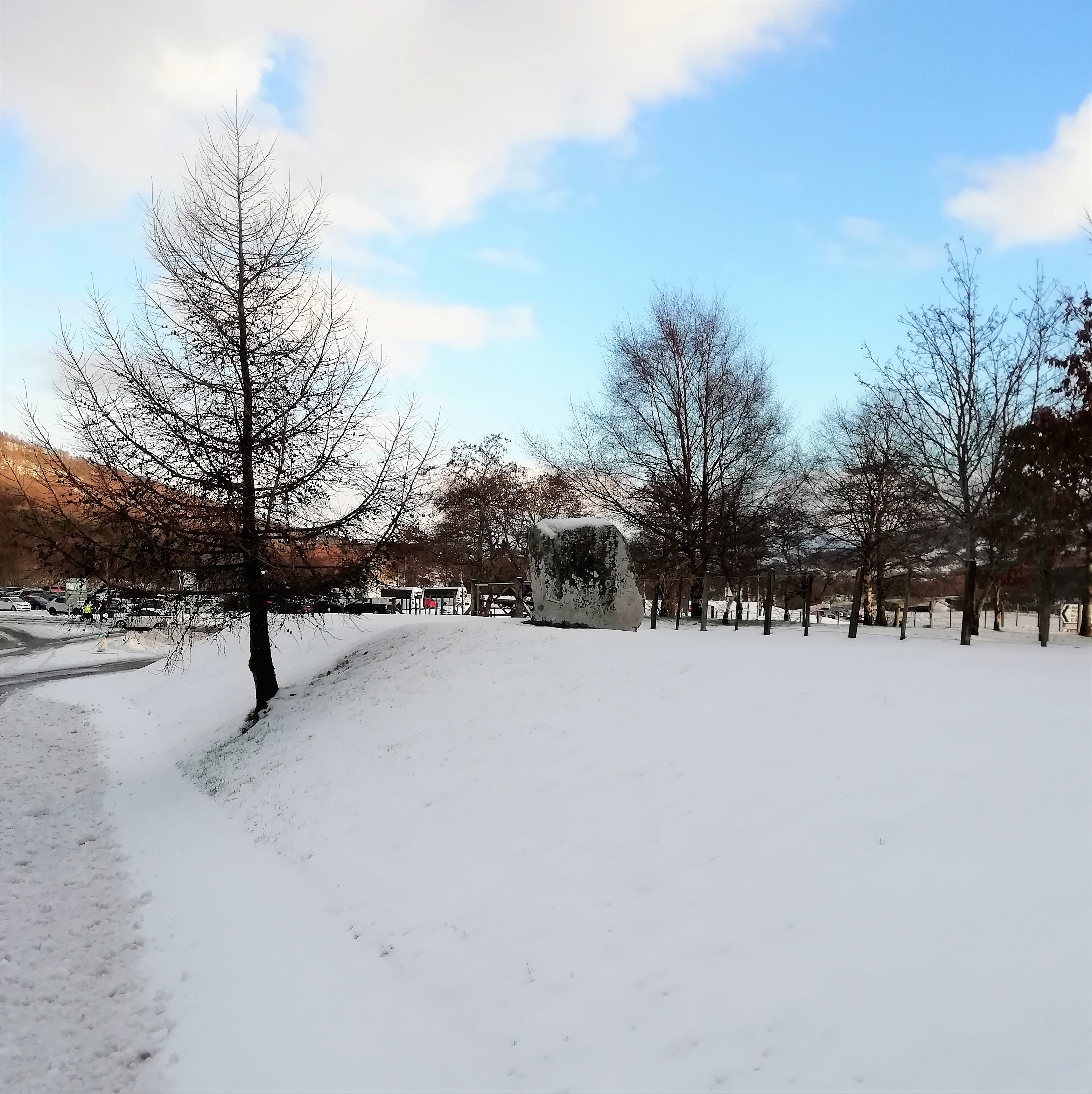 Pitagowan, Perthshire the Clach na h-Iobairt (the stone of offering) near the House of Bruar.